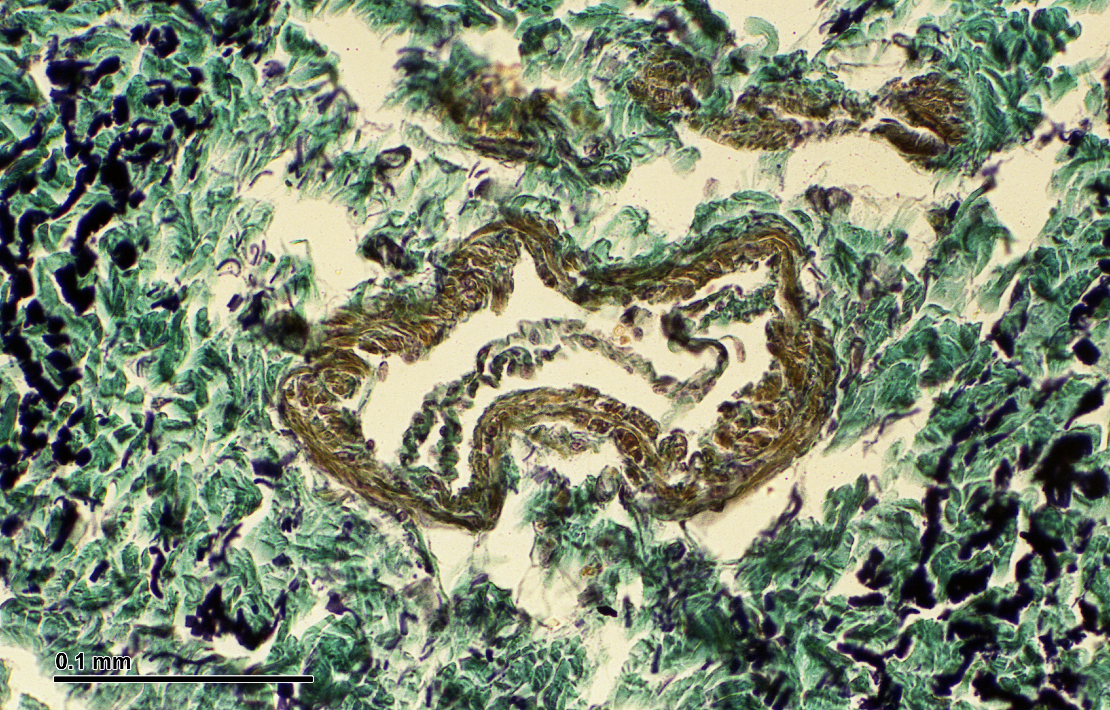 Venule: With a vein valve; cross-section; human. Optical microscopy technique: Bright field. Magnification: 600x (for picture width 26 cm ~ A4 format).